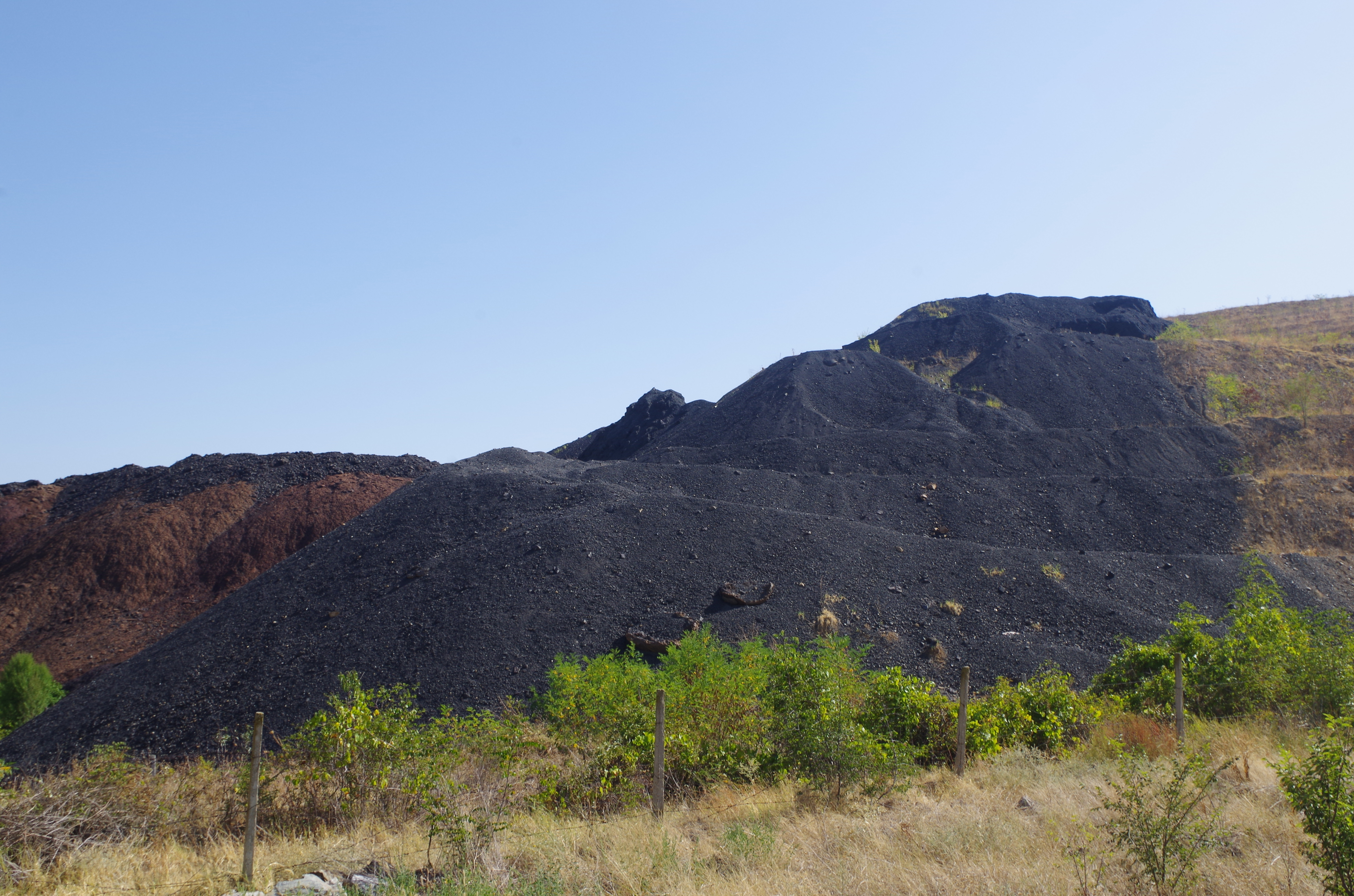 Hill above the village of Vozarci